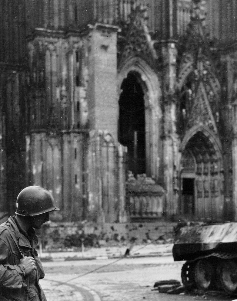 Original caption: Cologne, Germany - Cpl. Luther E. Boger, Concord, N.C., skytrooper, reads a warning sign in the street. This street leads to the Rhine River and is under observation of the Germans who occupy a stronghold there. Cpl. Boger is with the 82nd Airborne Division. 4 April 1945. The German tank is burnt out and the torsion-bars have been destroyed by the immense heat of the fire. Allied troops captured the western part of Cologne on 6th-7th March 1945. The German army still held the eastern shore of the Rhine and attacked the Allies with artillery. The rest of Cologne was captured between 12th and 15th April 1945. Until the 16th April a strip of about 500m along the shore had been declared as a restricted area and the cathedral was just within this zone. Text on sign reads: SIGHT SEERS KEEP OUT! Beyond this point you draw fire on our FIGHTING MEN HE RISKS HIS LIFE 24 HOURS A DAY DO YOU??